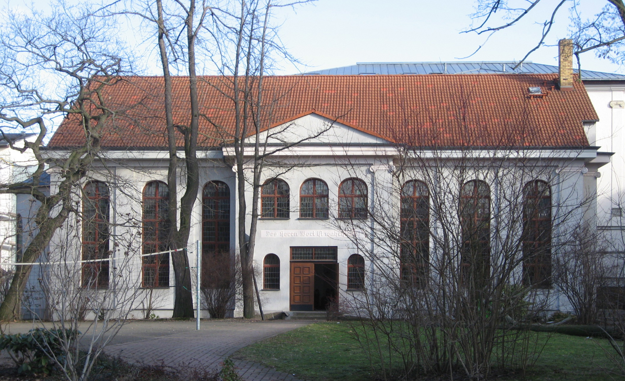 United Methodist Church “Kreuzkirche” in Leipzig, Paul-Gruner-Strasse 26